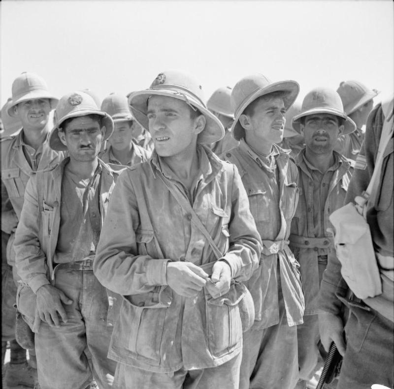 The British Army in North Africa 1942 German and Italian prisoners captured during recent fighting in Libya, 1 June 1942.